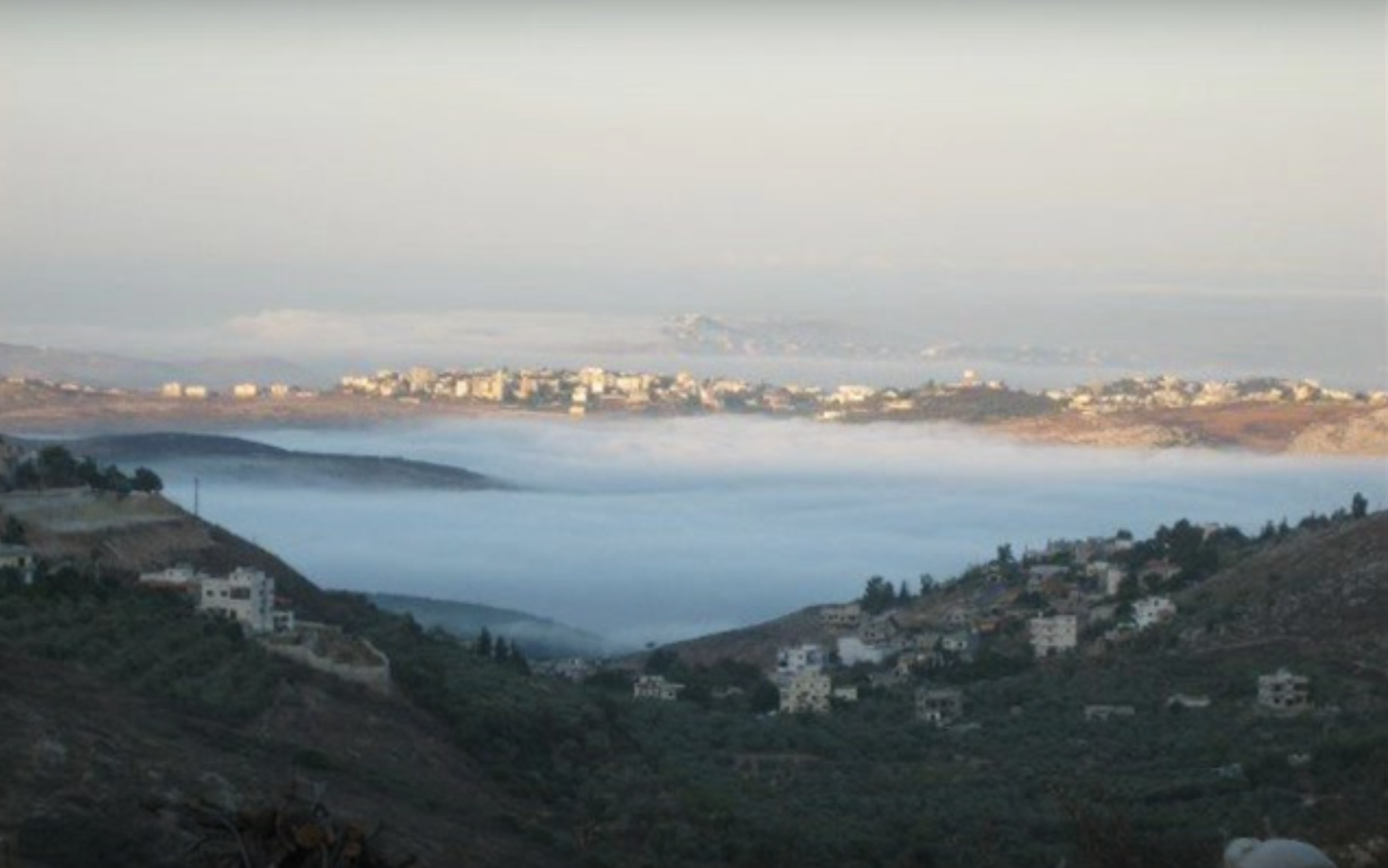 Clouds rising